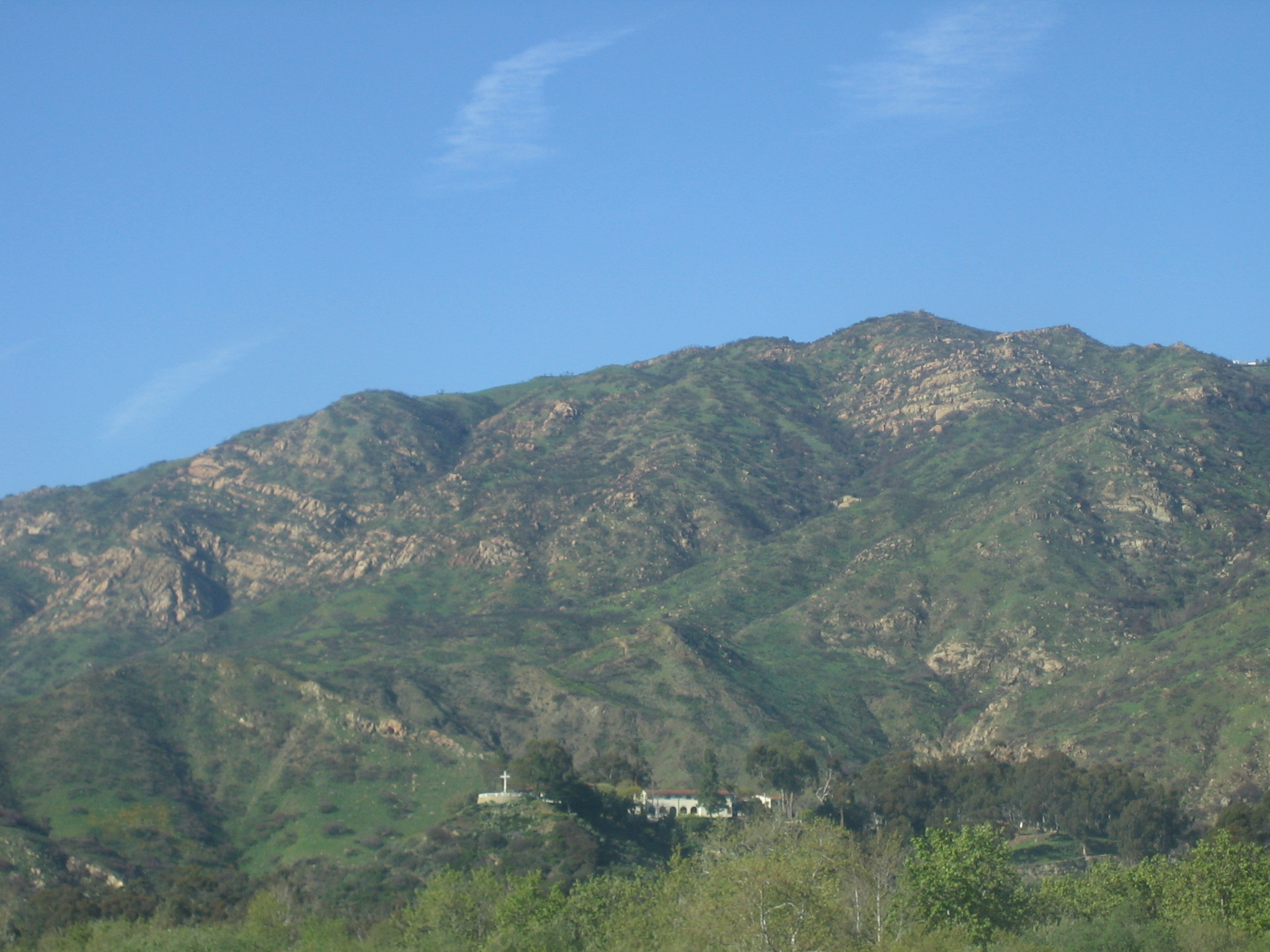 The Santa Monica Mountains — in Malibu area, California. With California coastal sage and chaparral habitat native vegetation. Protected within the Malibu Creek State Park, Santa Monica Mountains National Recreation Area.